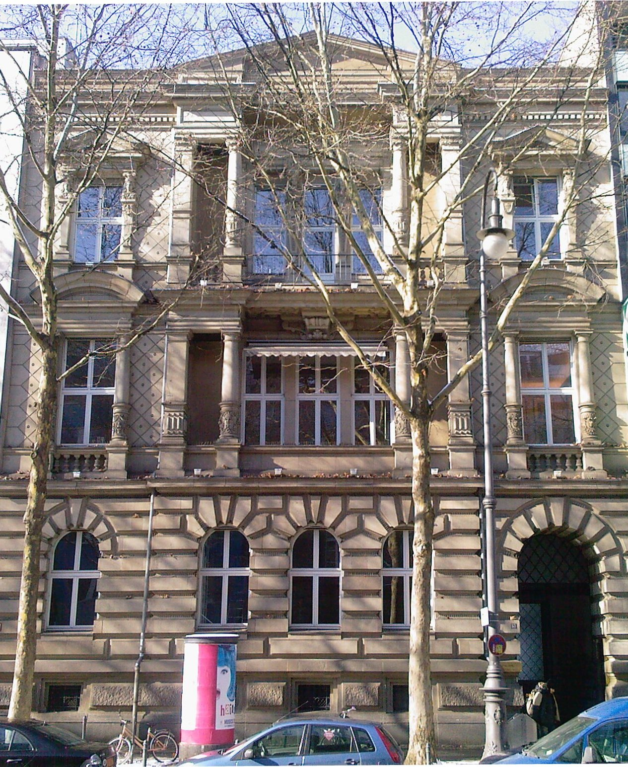 Taschen GmbH, Hohenzollernring 53, Cologne, Germany This is a photograph of an architectural monument.